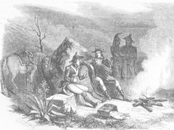 French soldiers in the Bassano campaign (1796)